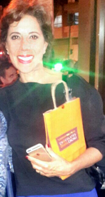 Atriz brasileira